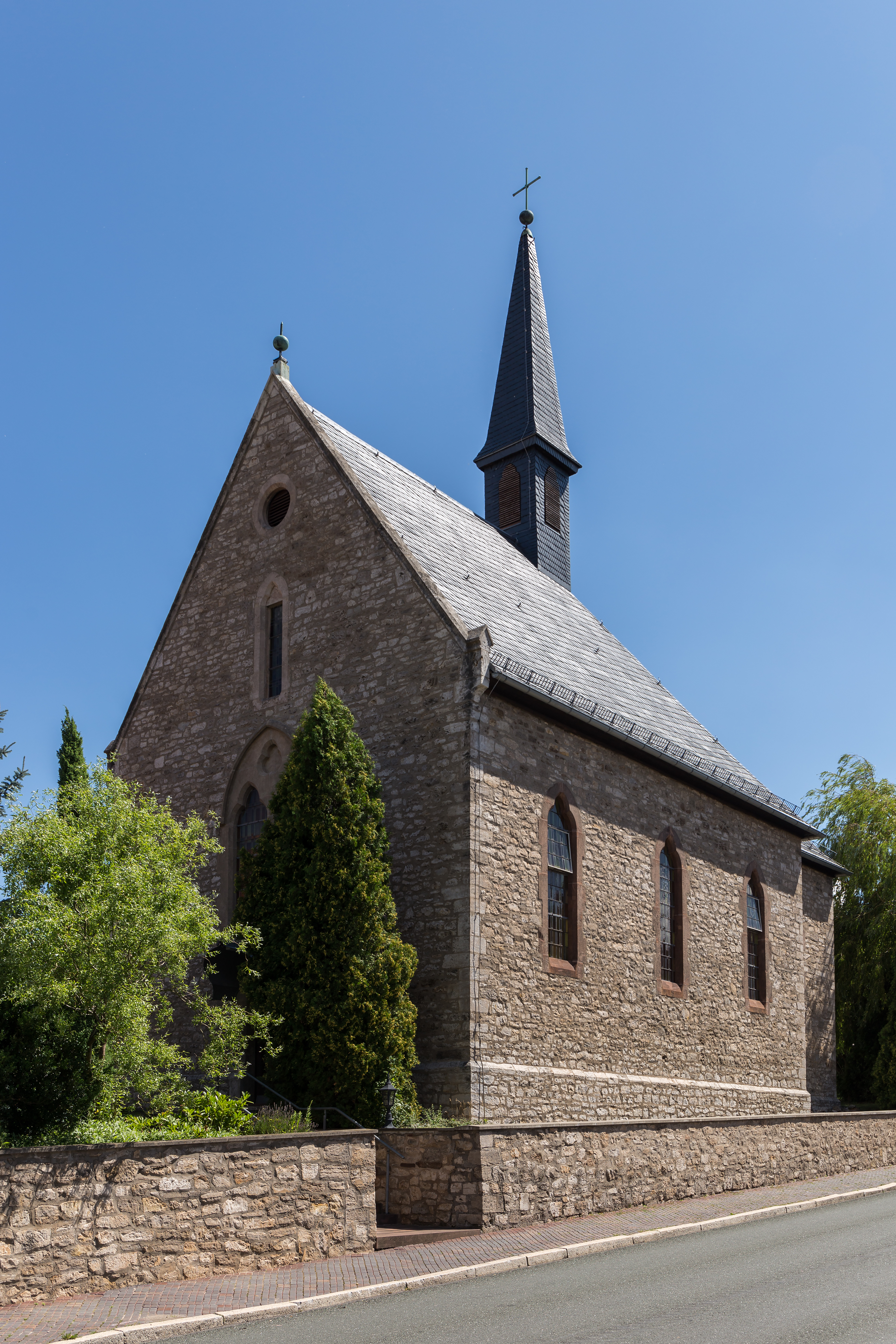 Catholic church "St. Elisabeth" in Ranis (Thuringia, Germany).